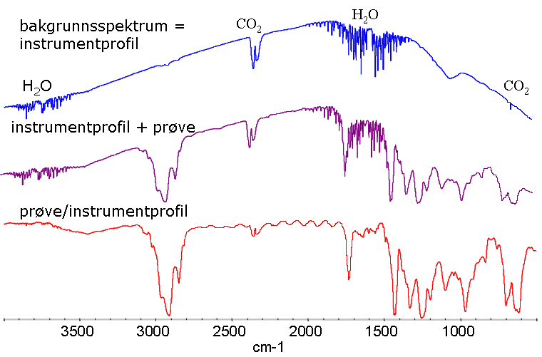 IR-spectroscopy, single beam instrument Hintergrundsignal (gasförmiges Wasser und Kohlendioxid) Probe (nicht kompensiert) Probe (kompensiert)